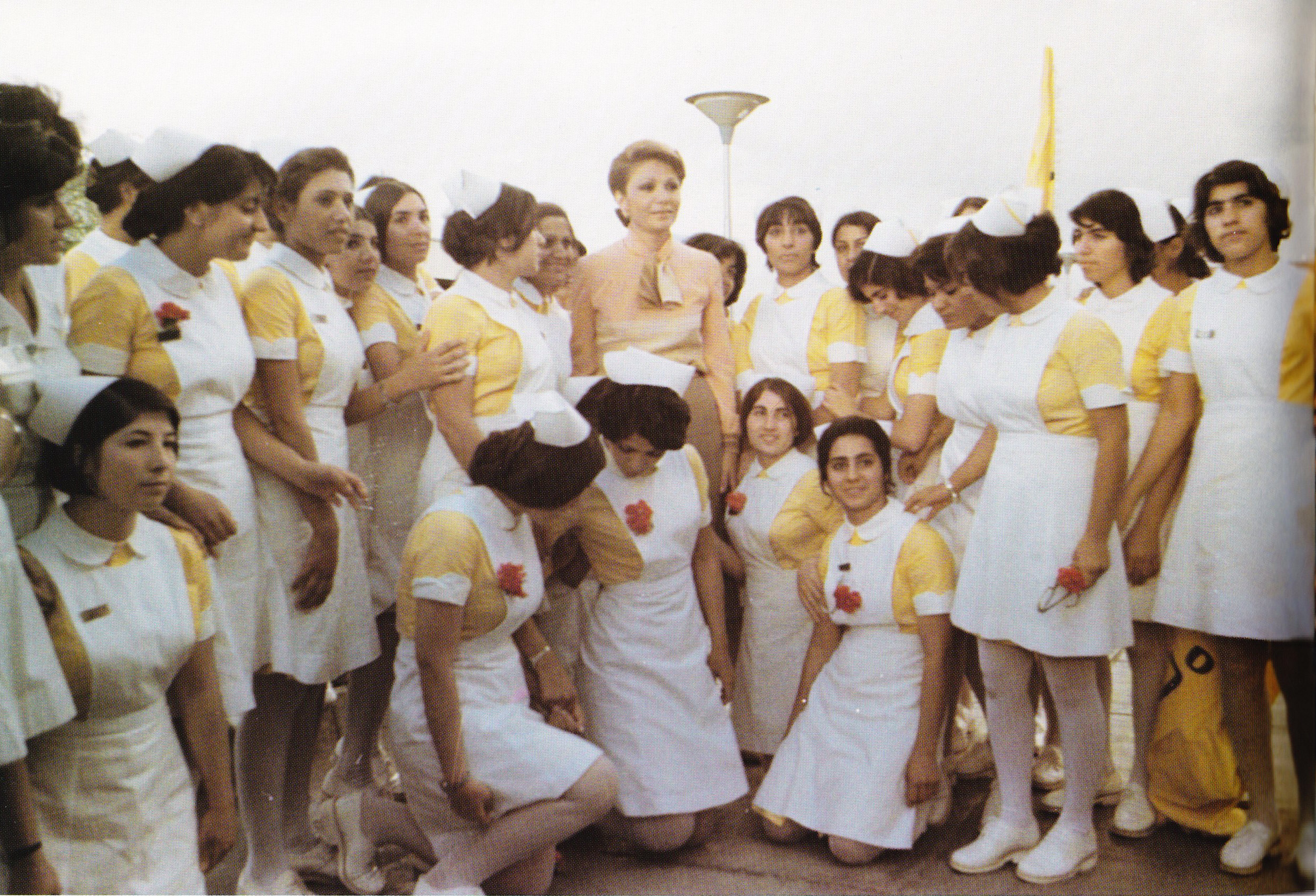 Schahbanu Farah Pahlavi and nurses; Kermanshah, Iran